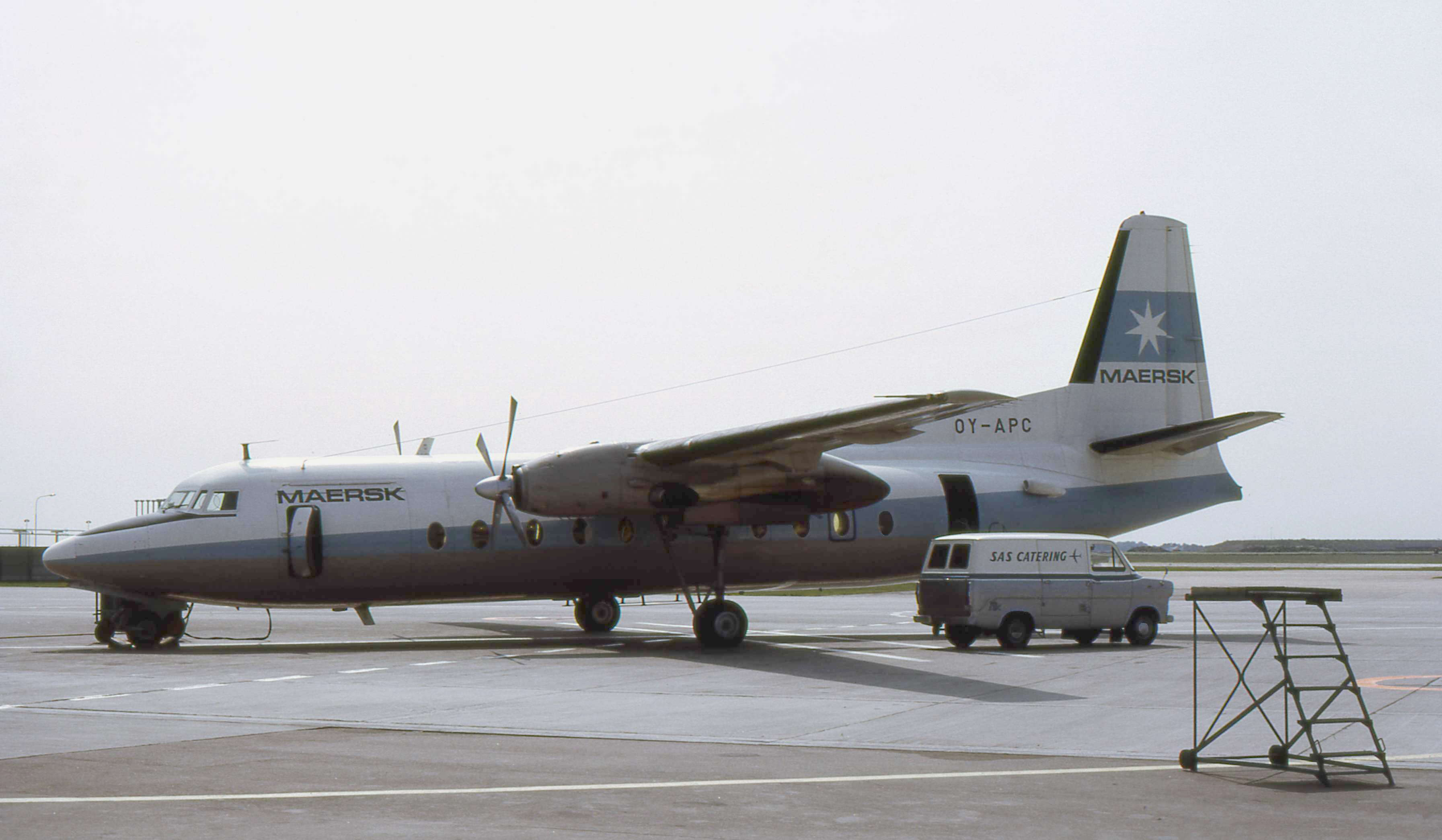 First flight on February 9, 1970 as PH-FPF and delivered to Maersk Air on February 14, 1970. Was then delivered to the following airlines: Air Rouerge (F-BYAC), East-West Airlines (Australia) (VH-EWT), Mississippi Valley Airlines (N4560Z), Air Wisconsin, Mesaba Airlines, Mahalo Air (N980MA), Horizon Airlines (Australia) (VH-IAV). Broken uo in April 1998.